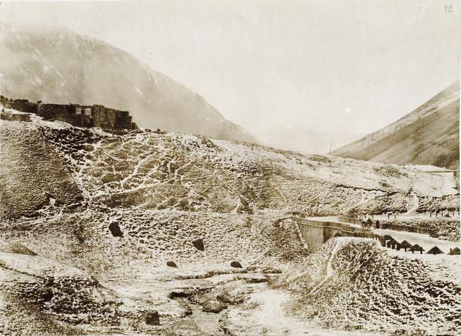 Georgian Military Road; Gudauri Pass.